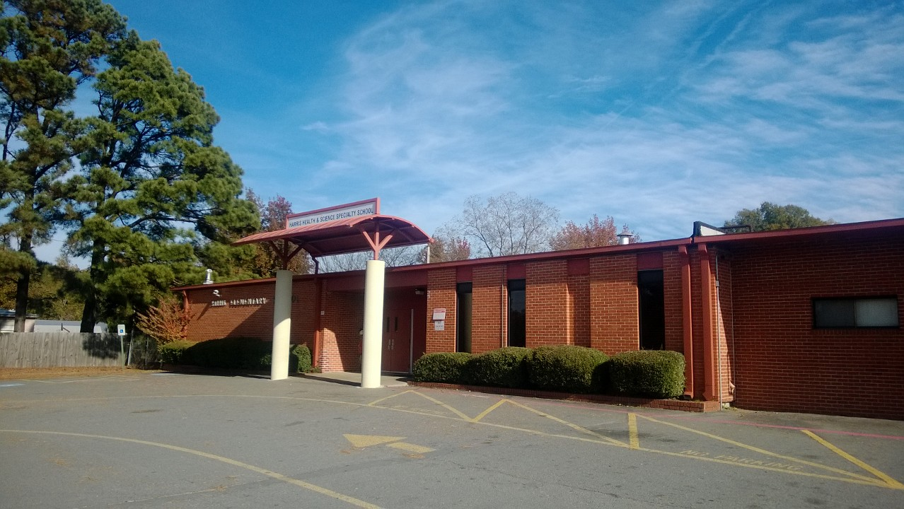 Exterior view of entrance of Harris Elementary School in McAlmont, Arkansas.